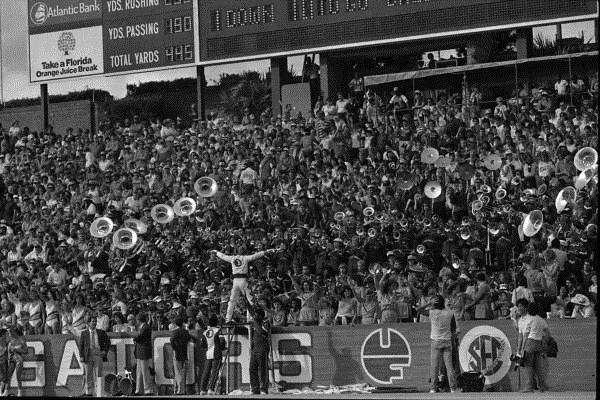 A picture of the FSU Marching Chiefs at the FSU v UF game on December 6, 1983.